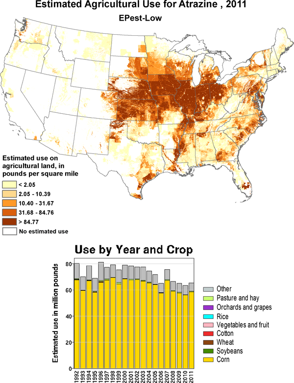 Atrazine map of use, USA, 2011 (estimated)